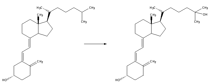 Enzymatic conversion of cholecalciferol to calcidiol by cholecalciferol 25-hydroxylase, a step in the biosynthesis of the active form of vitamin D3.